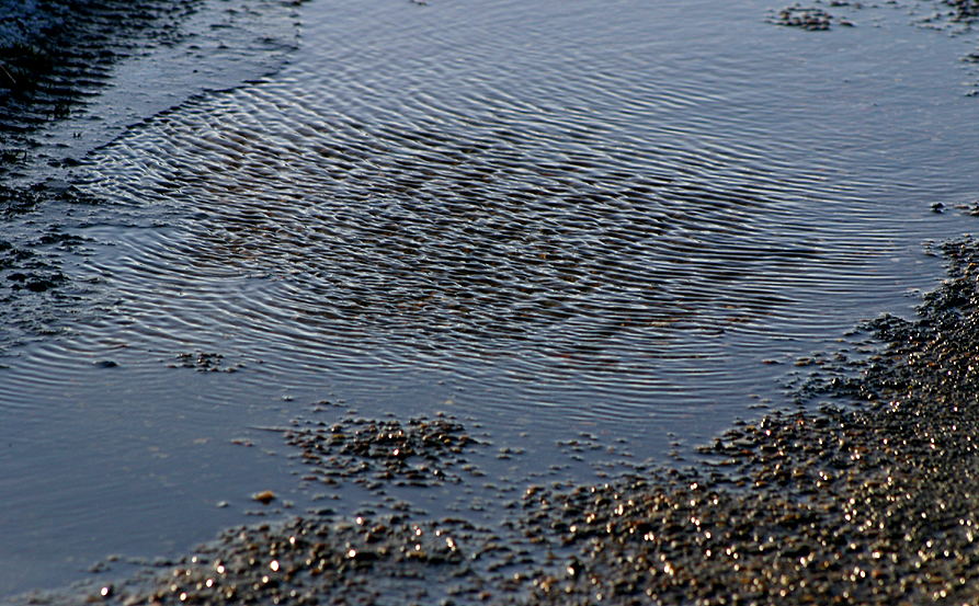 Marks of the wind in a puddle. Flyvesandet - a beach on the northern part of Funen, Denmark.